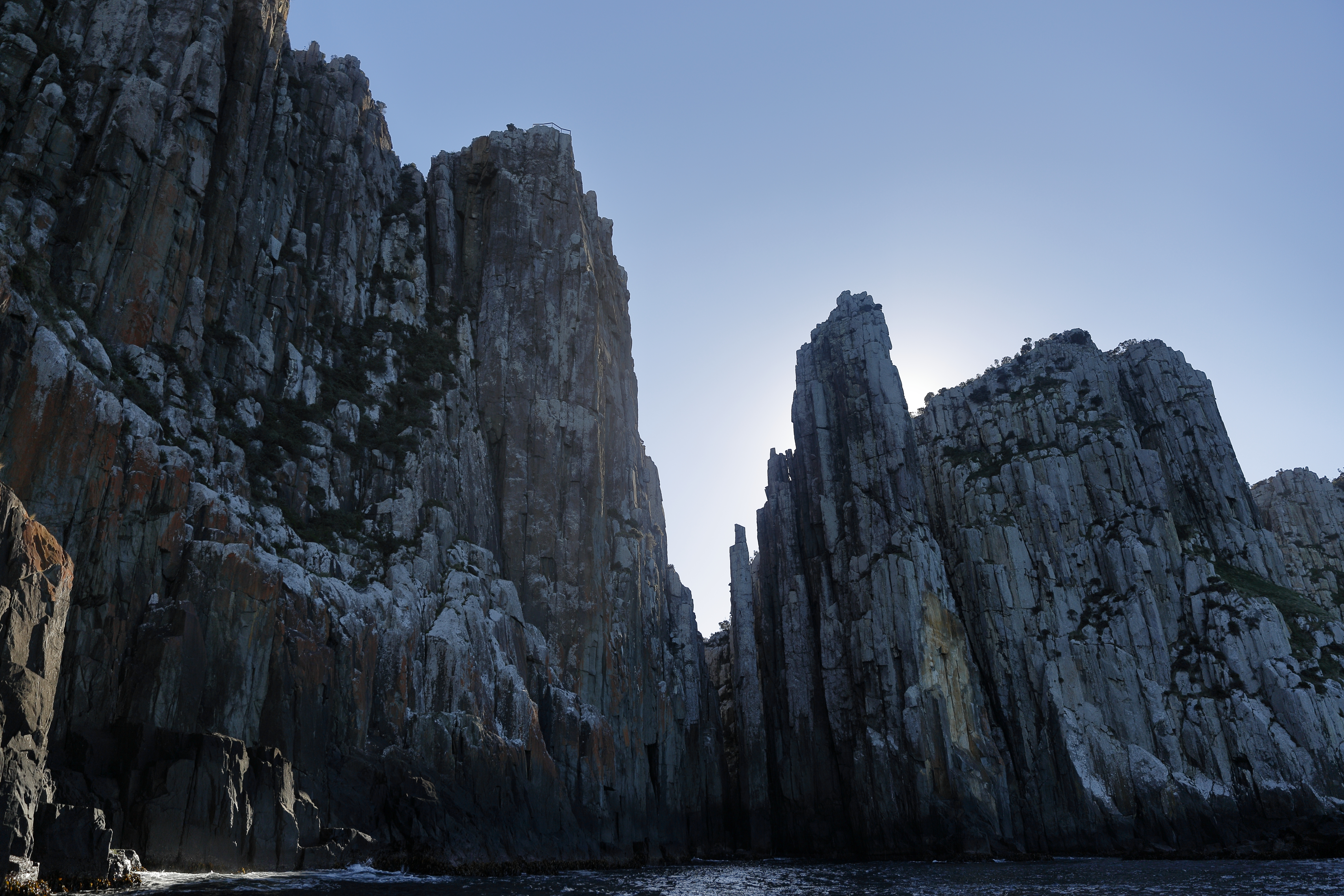 Totem Pole (centre) and Candlestick (right) in Tasman National Park. Tasman Peninsula. Tasmania.